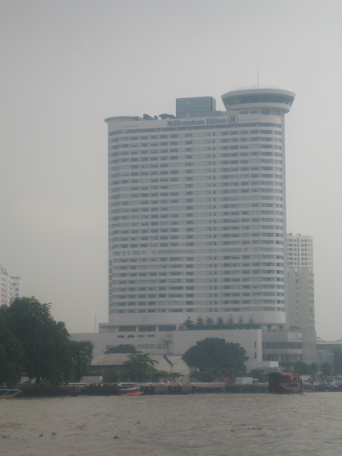 Millenium Hilton, Bangkok. Taken by Terence Ong in June 2006.